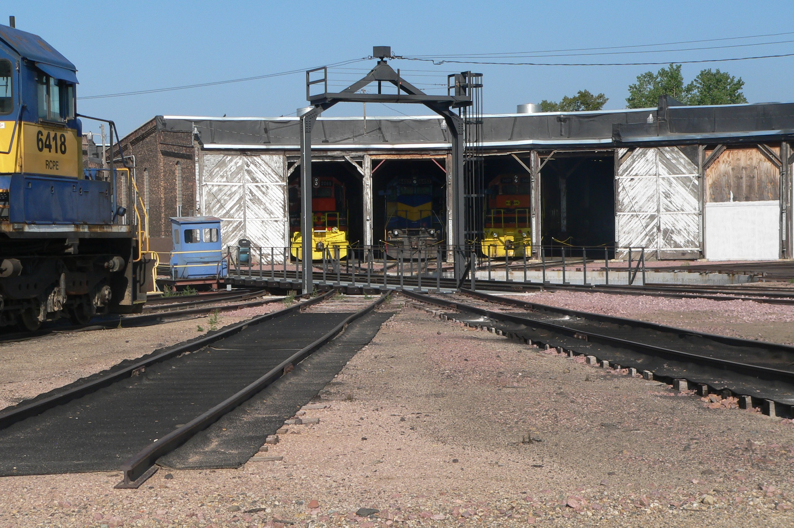 Chicago and Northwestern roundhouse in Huron, South Dakota.